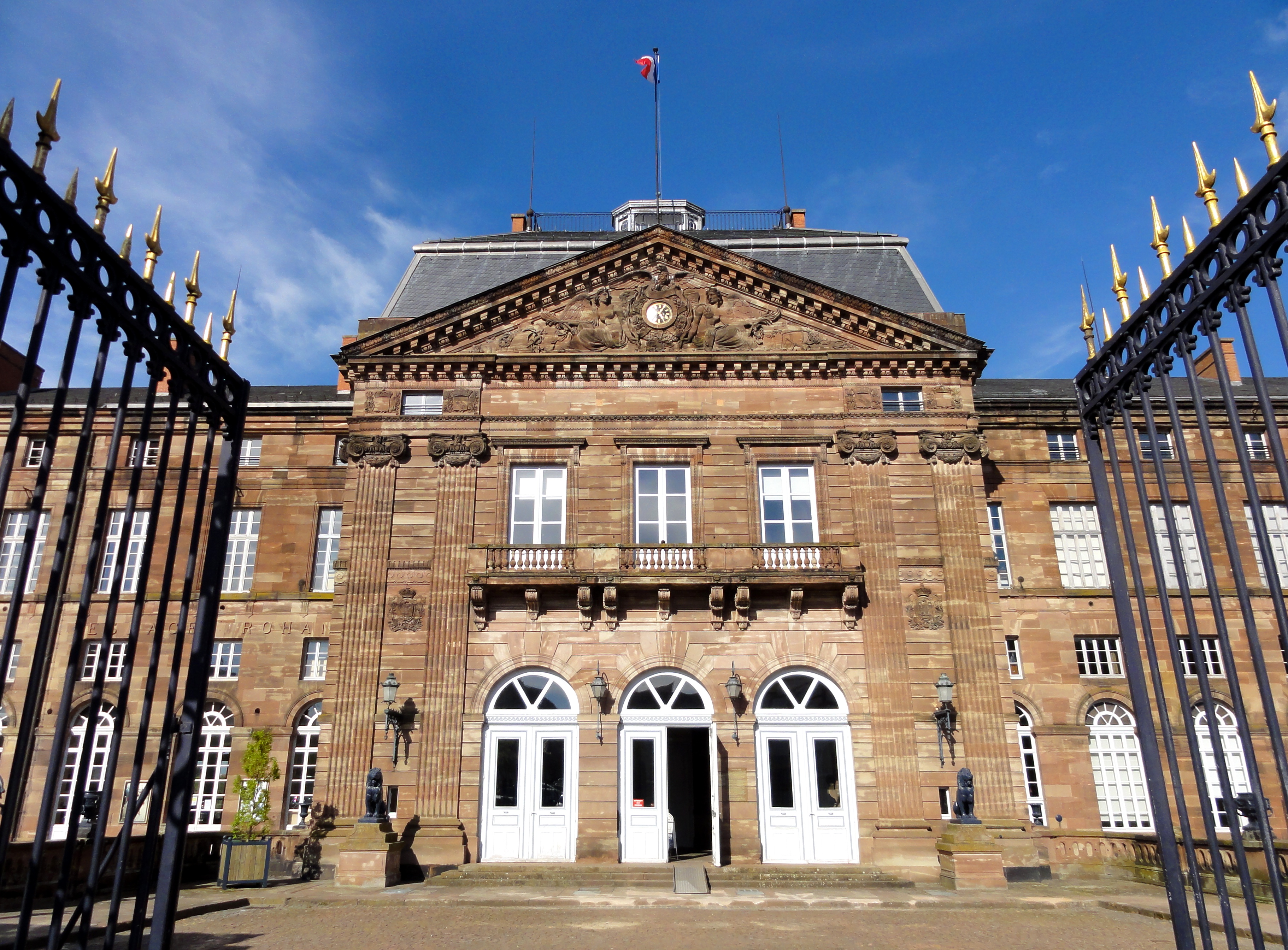 Alsace, Bas-Rhin, Saverne, Château des Rohan: It is indexed in the Base Mérimée, a database of architectural heritage maintained by the French Ministry of Culture, under the references PA00084953 and IA00055456 .